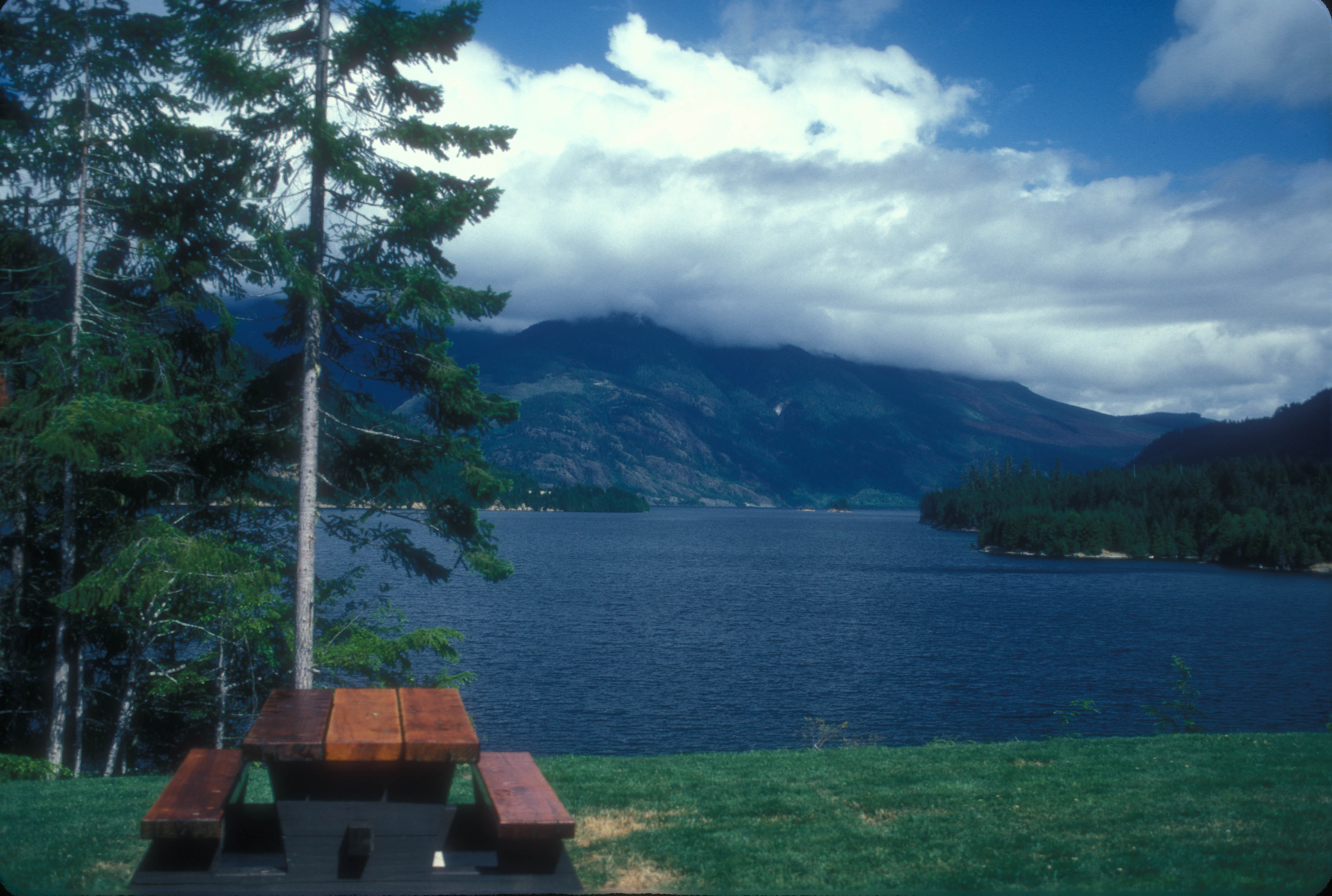 BUTTLE LAKE IS 14 MILES LONG; THE LAKE IS LOCATED BETWEEN CAMPBELL RIVER AND GOLD RIVER IN STRATHCONA PROVINCIAL PARK